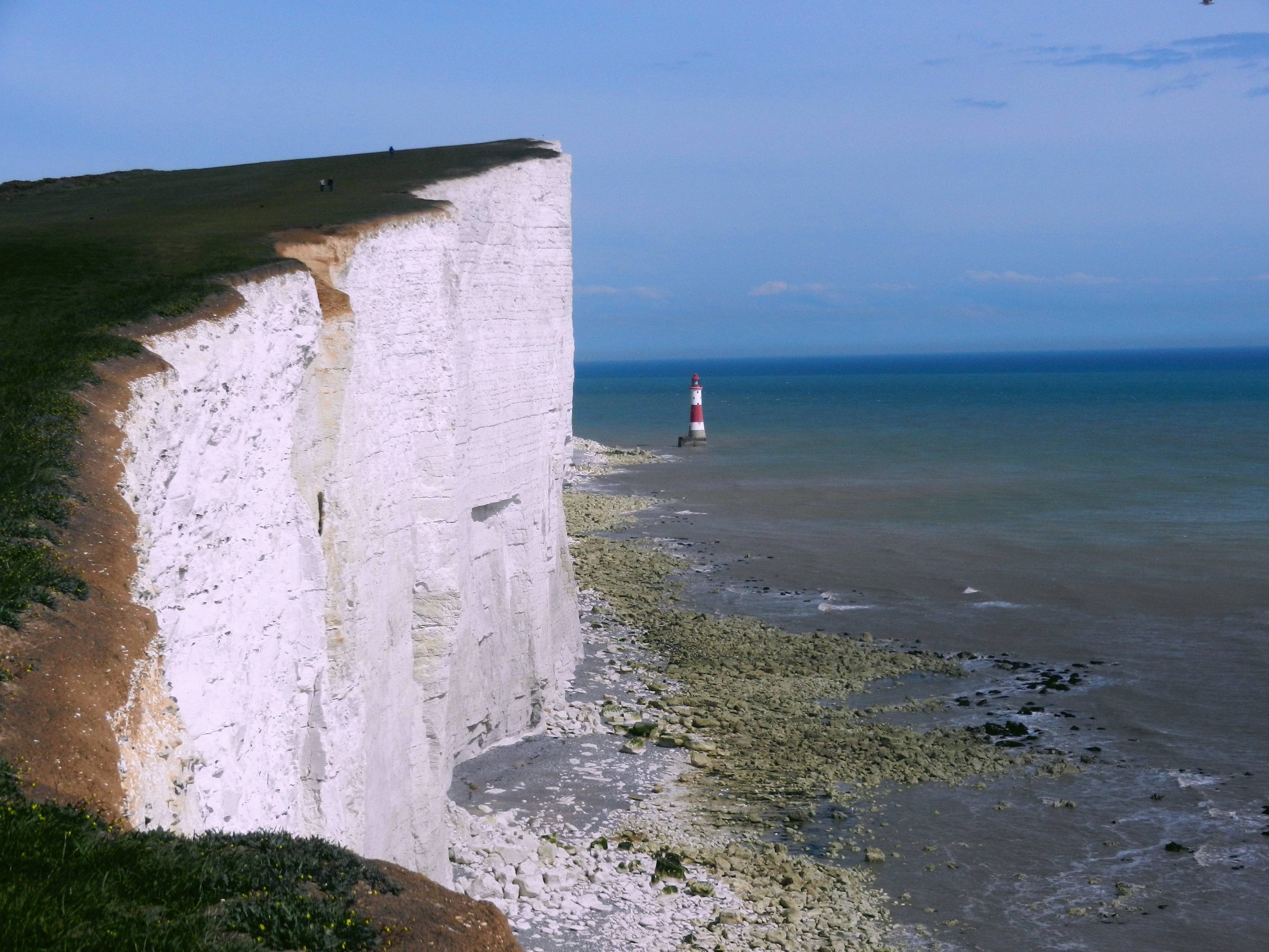 Beachy Head